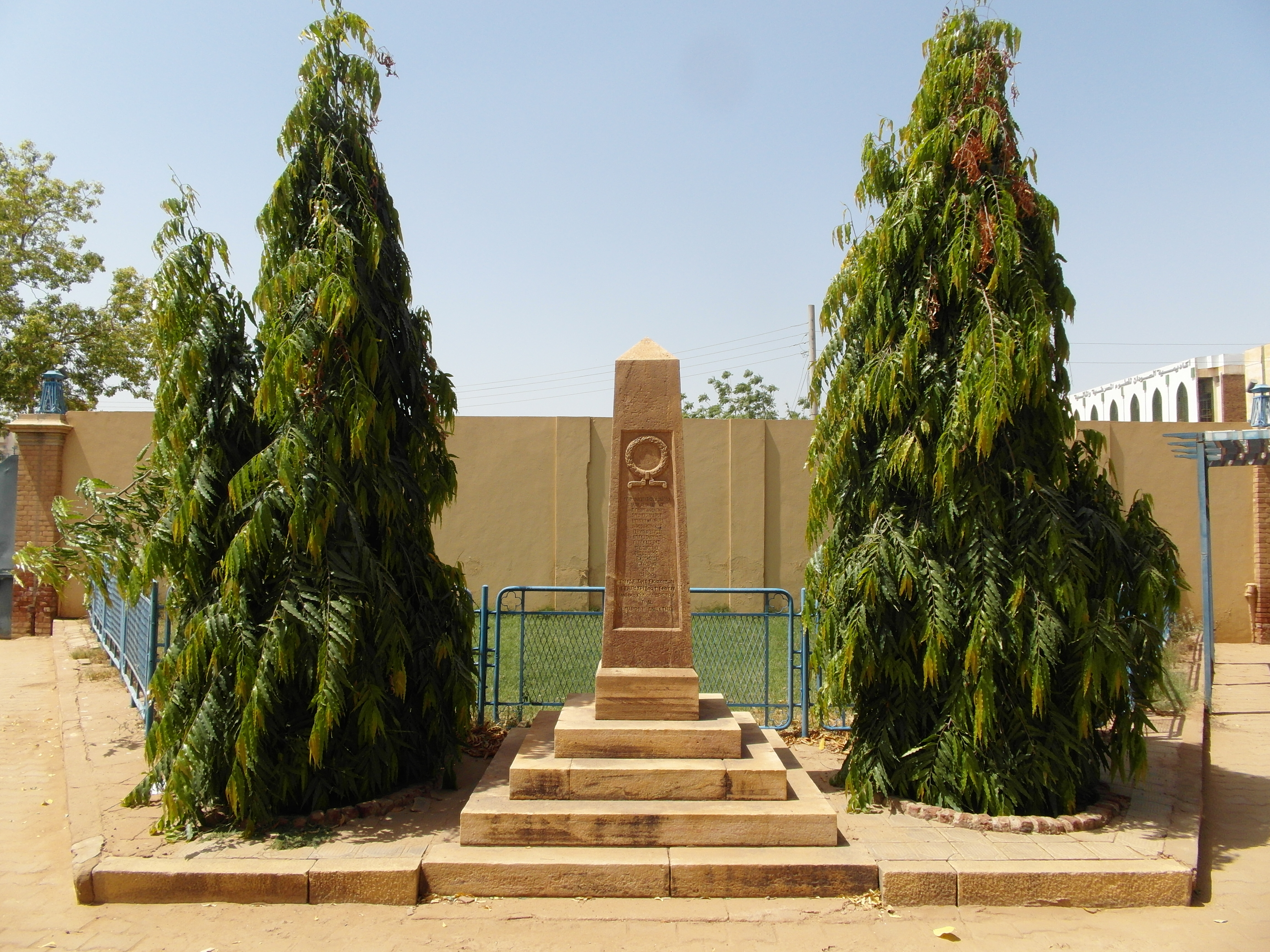 War memorial in the premises of the Greek community centre in Khartoum, Sudan